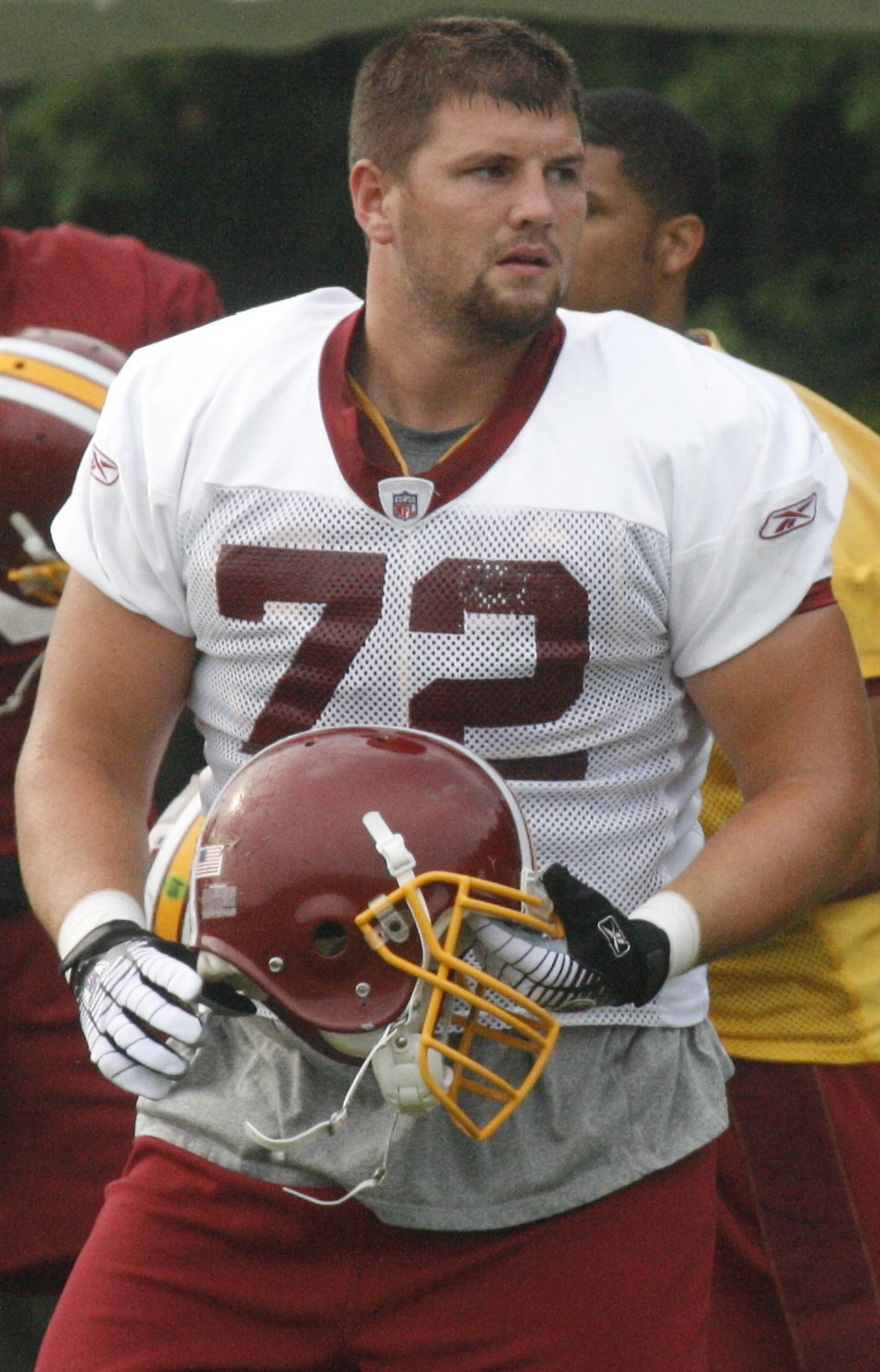 A picture of Washington Redskins OG Andrew Crummey at training camp